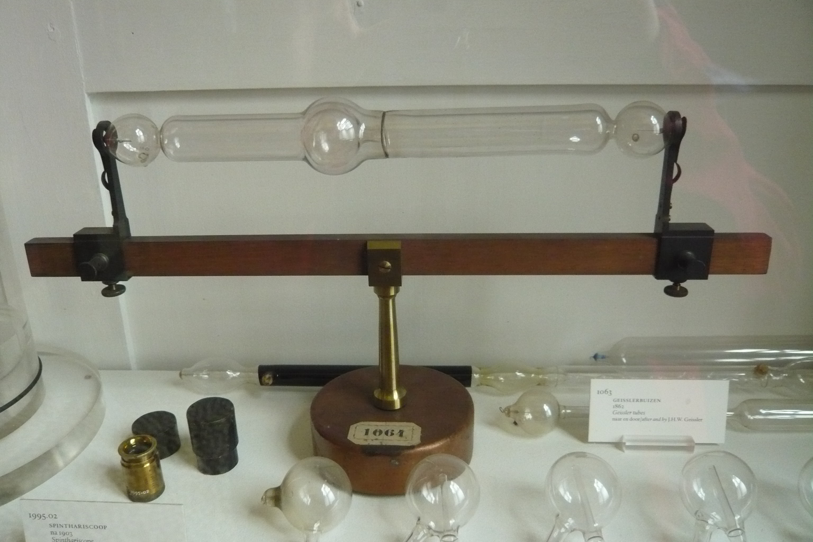 Instrument room, Teylers Museum, The Netherlands Cabinet V